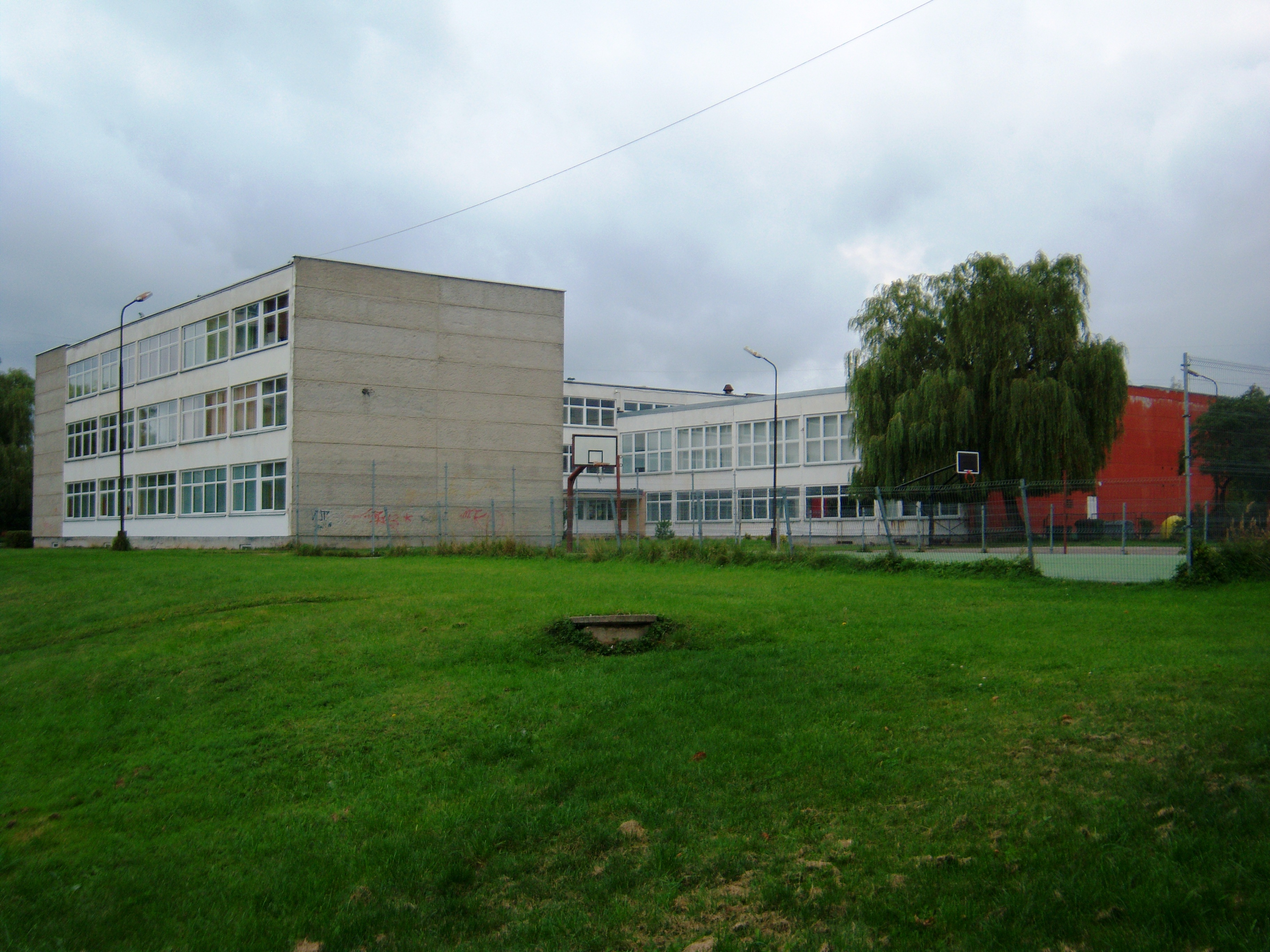 Versmė Secondary School, Kaunas, Lithuania